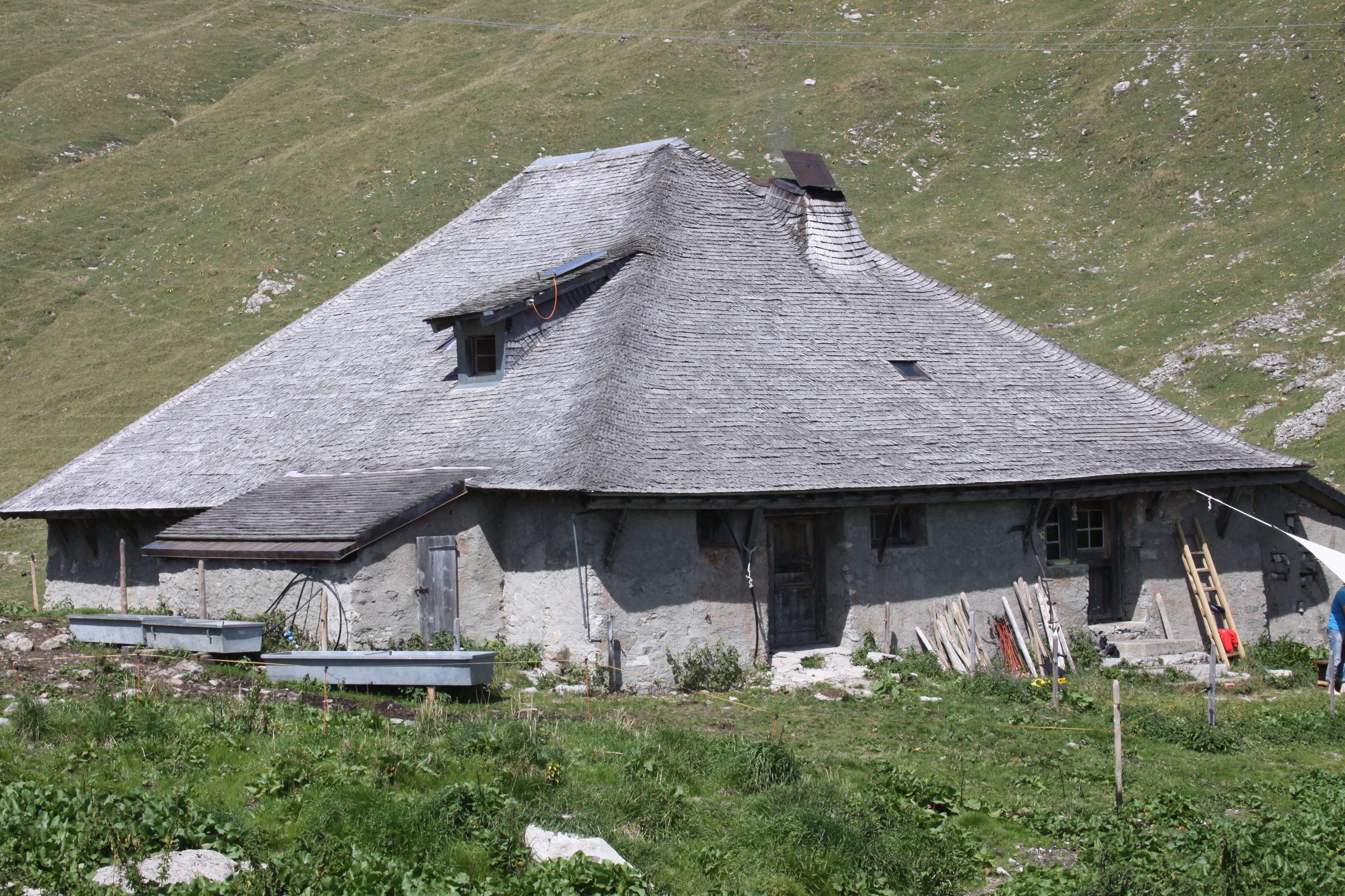 Alpen Chalet, En Lys 215, Albeuve, Haut-Intyamon